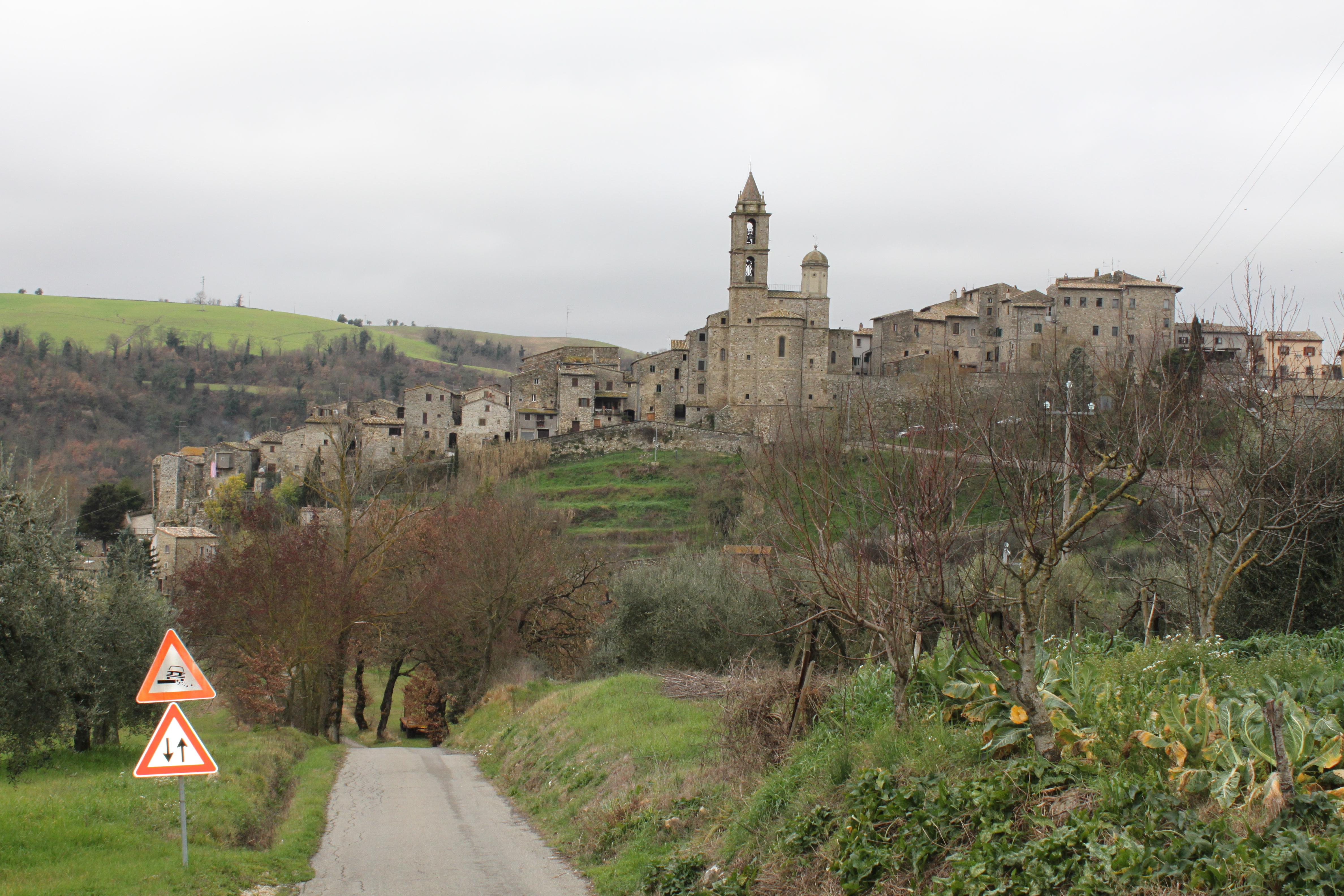 A view of Baschi, a town in the province of Terni